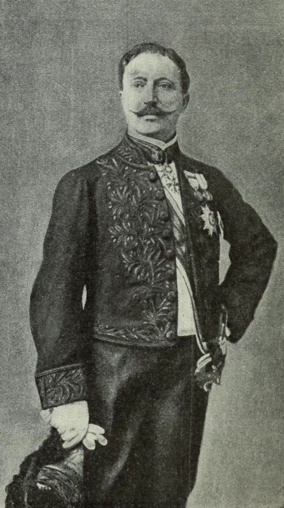 Édouard Detaille. Famous French painter of battle scenes. President of the Society of La Sabretache, by which the new Waterloo memorial was erected.